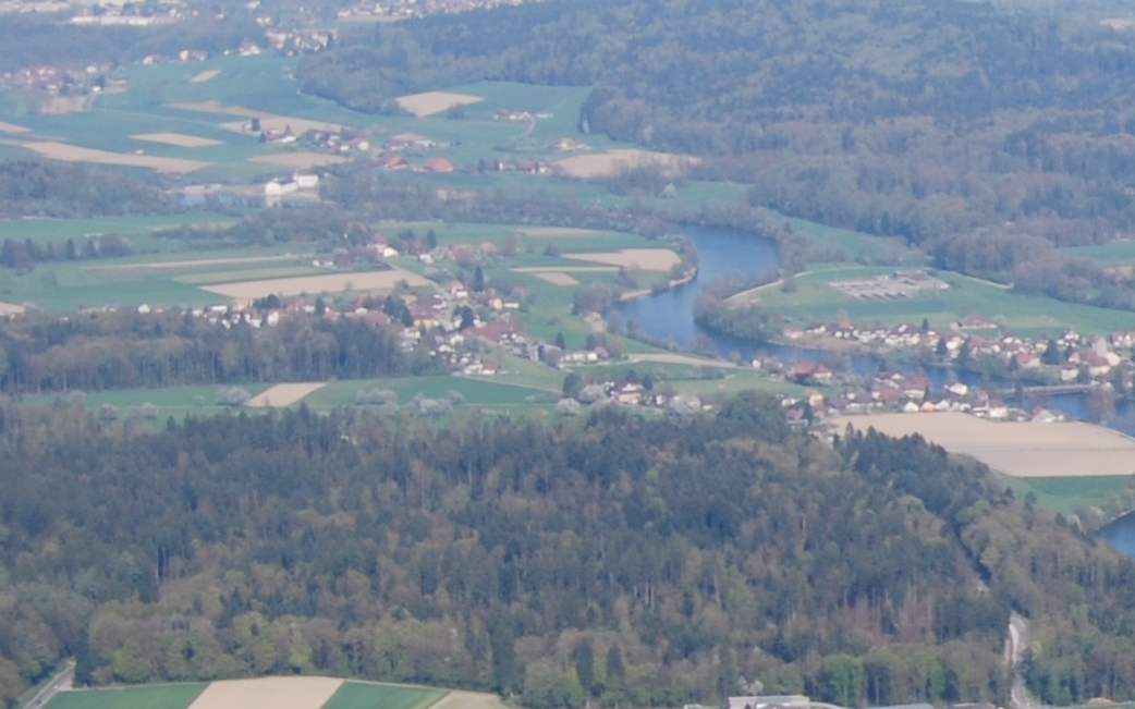 Aerial view of Schwarzhäusern, canton of Bern, Switzerland